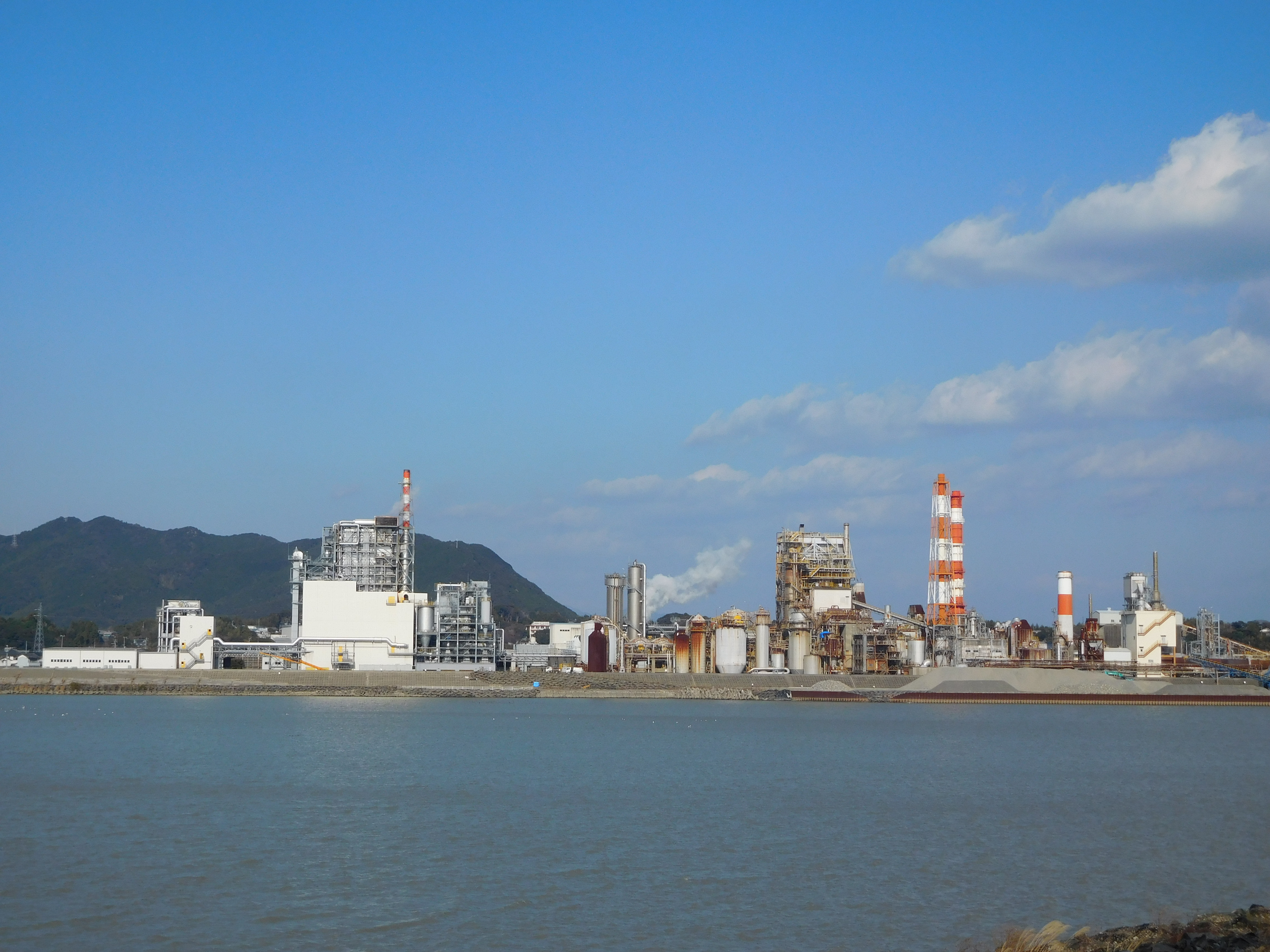 This is Hokuetsu Kishu Paper Kishu Factory, which is located in Kiho, Mie, Japan. This photo was taken from Shingu, Wakayama, Japan.